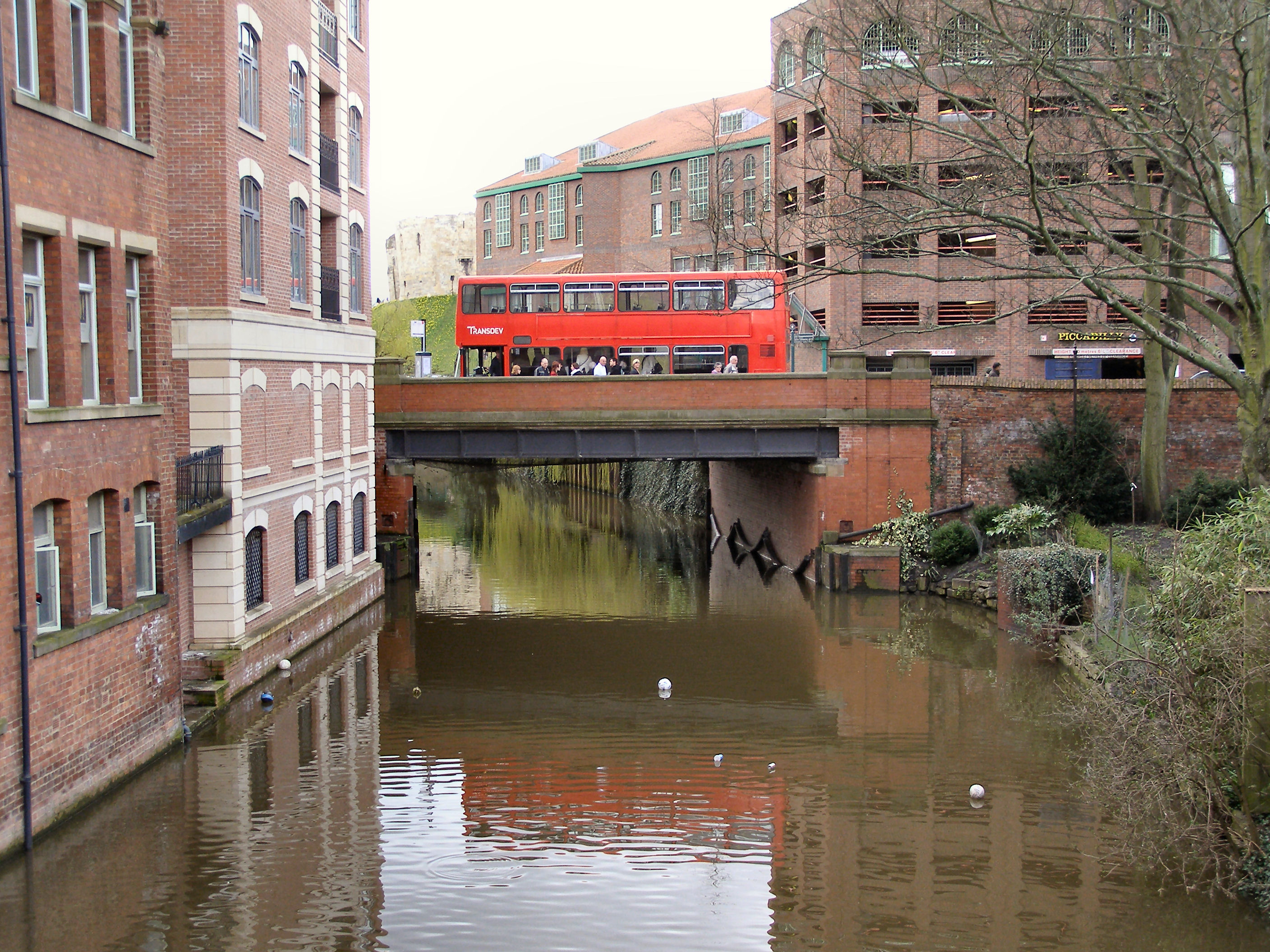 River Foss between Fossgate and Piccadilly, Data from Geograph: Description: The bus is crossing the river via the bridge at Piccadilly. Viewed from the bridge at Fossgate. ICBM: 53.957304627115, -1.0785353806019 Location: (about 1 km from) near to York, Great Britain.